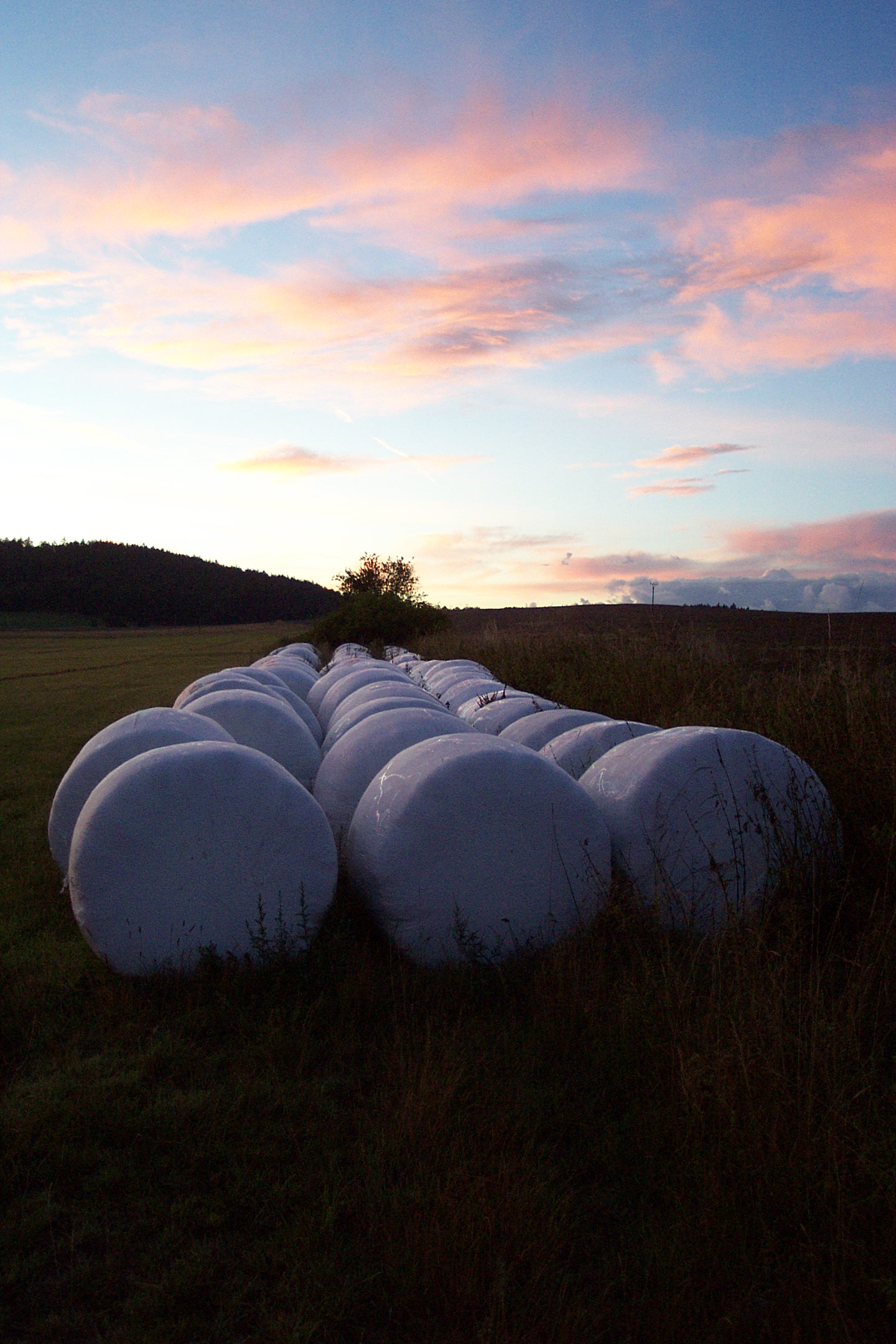 Grass bales for silage by the morning.